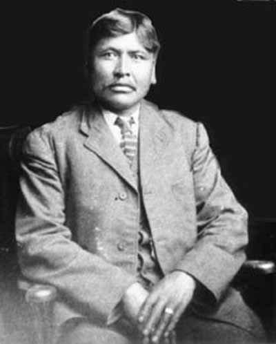 Jim Boss (1871 -1950) Kashxoot, Kishwoot Canadian Chief who "provided guidance and inspiration to the Yukon's First Nations in their struggle for survival"